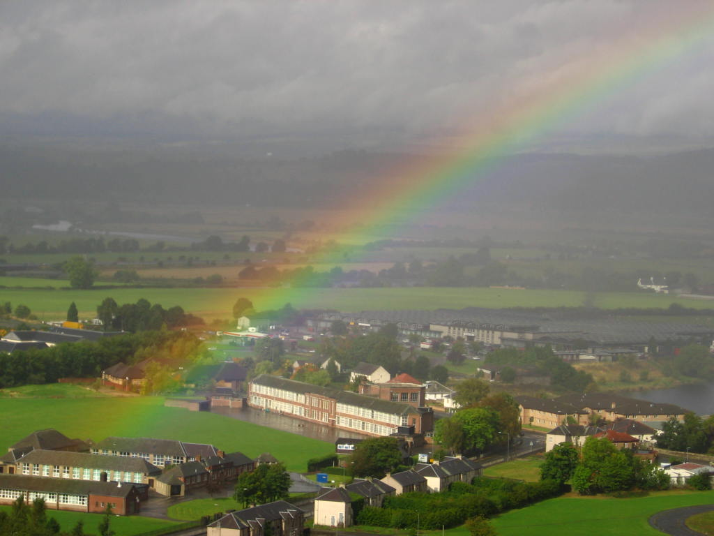 Rainbow at Stirling, Scotland